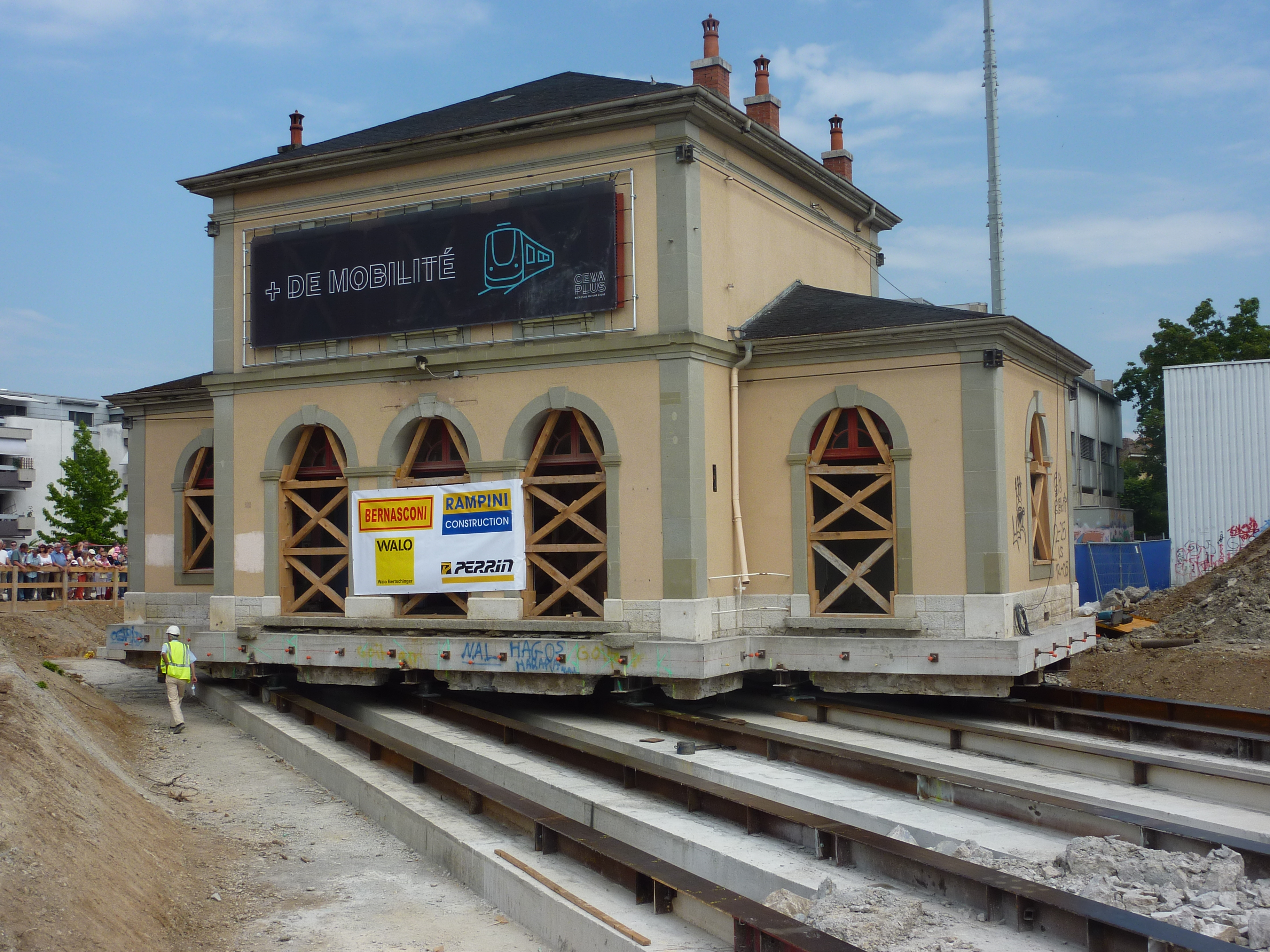 Move of the Chêne-Bourg train station in relation to CEVA rail project. Object location46° 11′ 47.89″ N, 6° 11′ 44.36″ E - Google Maps - Google Earth